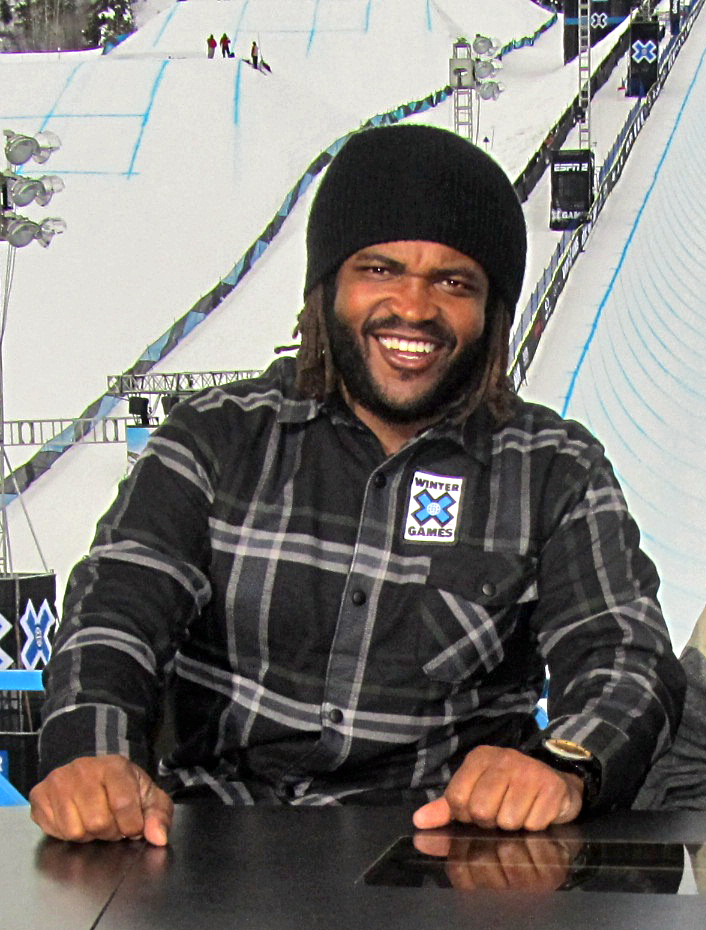 Sal Masekela poses for a picture at the X-games.